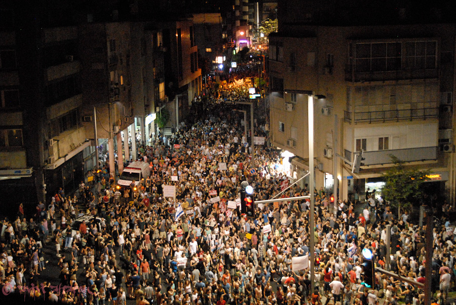 150,000 protesting near Tel Aviv, Tel Aviv, IL